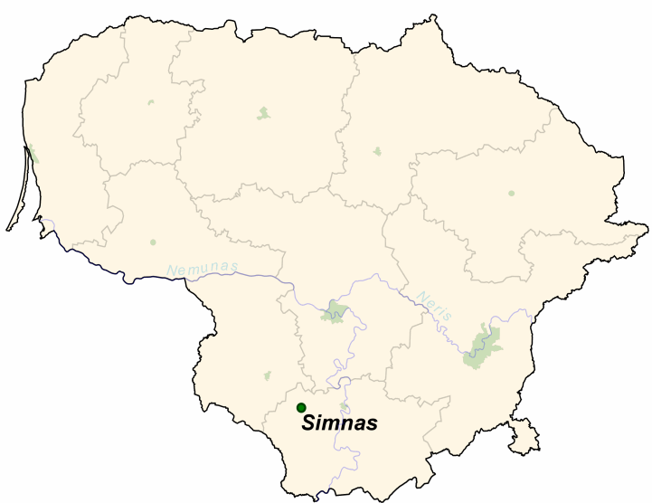 Simnas on the map of Lithuania